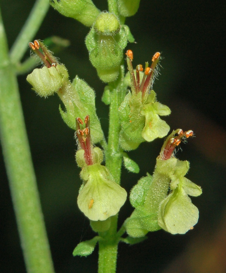 Teucrium scorodonia - Eremo del deserto, Genova, Italy